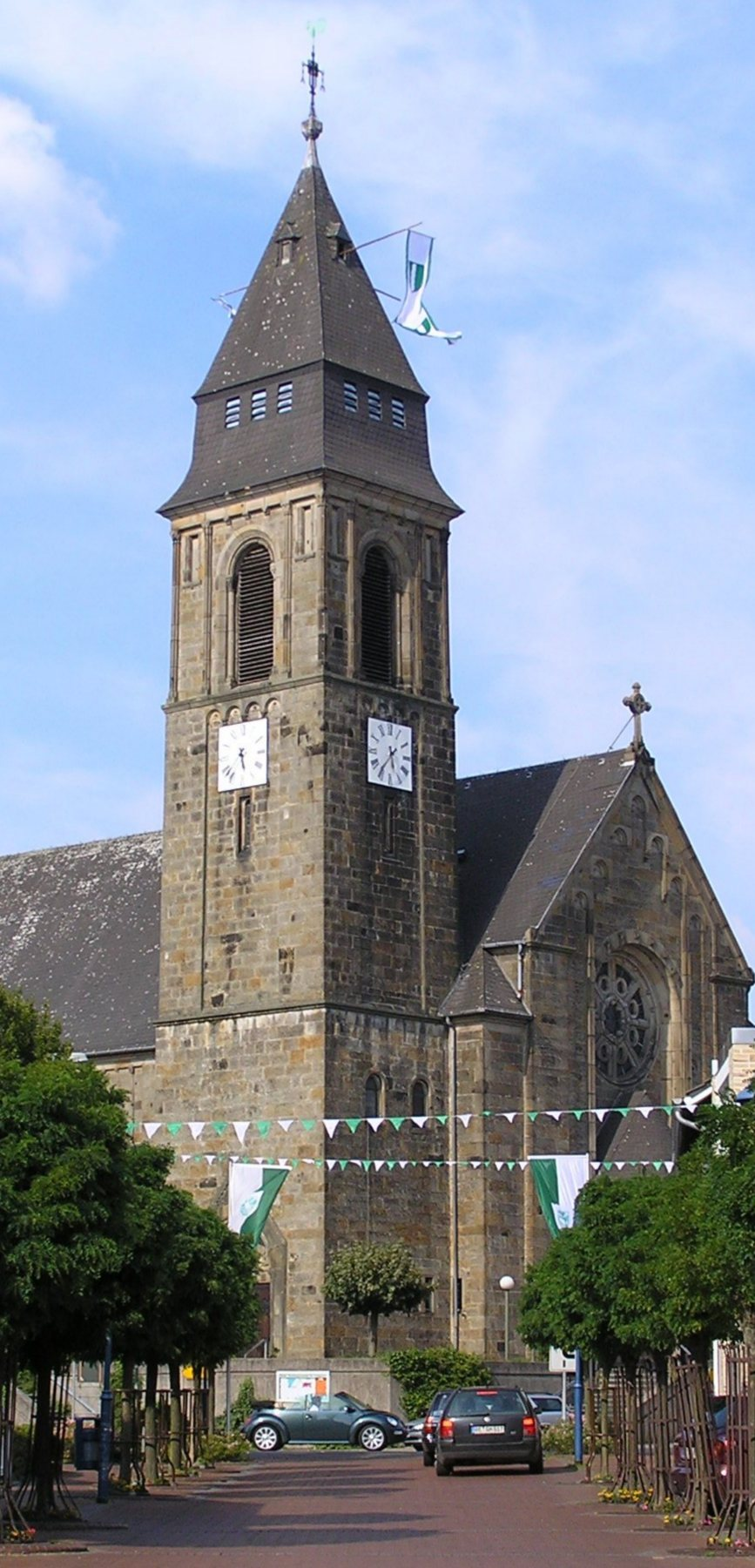 Church of St. Ludgerus in Schermbeck, Germany